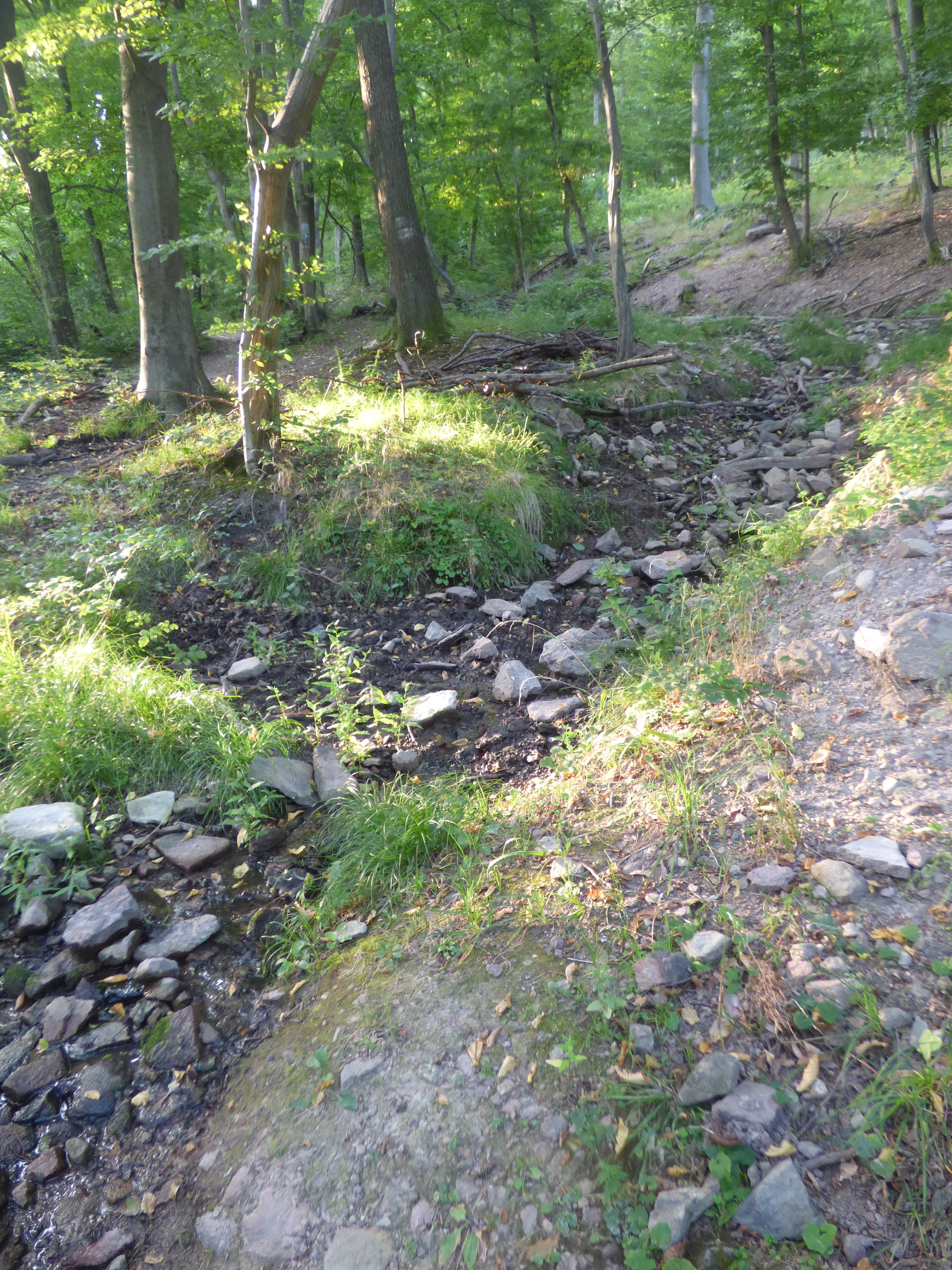 Az egyik bölcső-hegyi forrás (valószínűleg a Háziipari-forrás) környezete